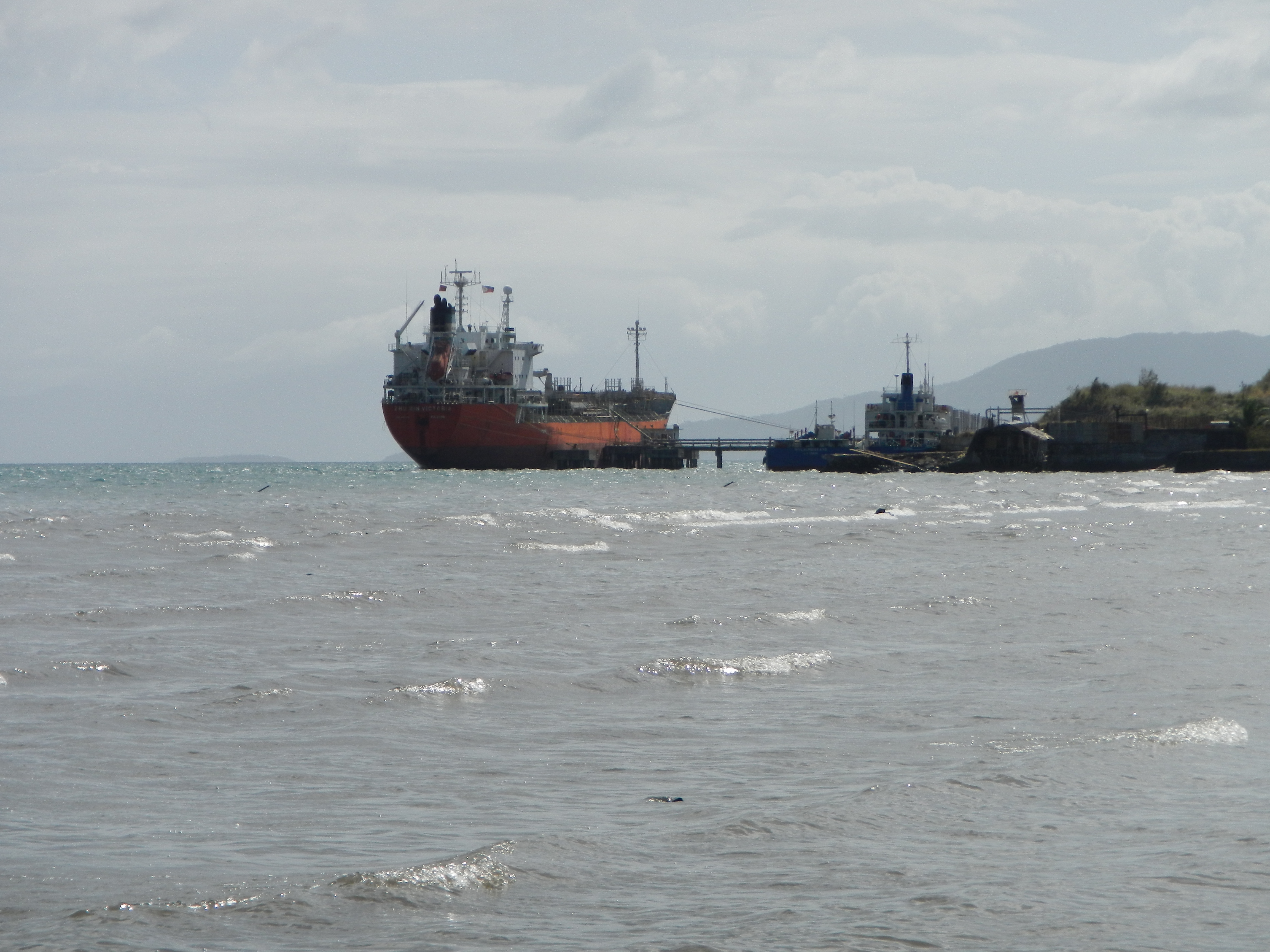 Upload Wizard photos -- (General description, 3-dimension angle by angle photography of this town, church & landmarks) -- Balintawak Cry of Pugadlawin Andres Bonifacio monument, San Pascual, Batangas National Highway, Poblacion, Bauan, Batangas Elementary School, National Highway, bancas, coconut trees, Mabini, Bauan beach, shore, blue sky, ships and ferry boats, blue mountains within Barangay San Pedro, Bauan, Batangas and Barangay San Juan, in Mabini, Batangas[1].